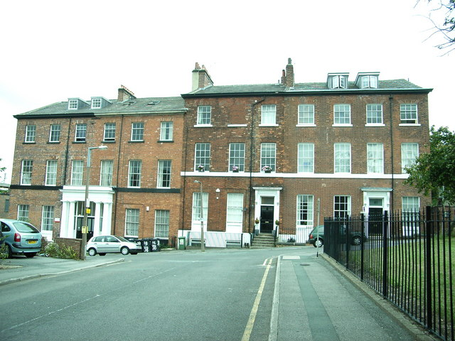 Hanover Square (South West side) This is the other block of houses that were built on the square another seven were planned but never realised until another fifty years later when less quality terraced houses were added